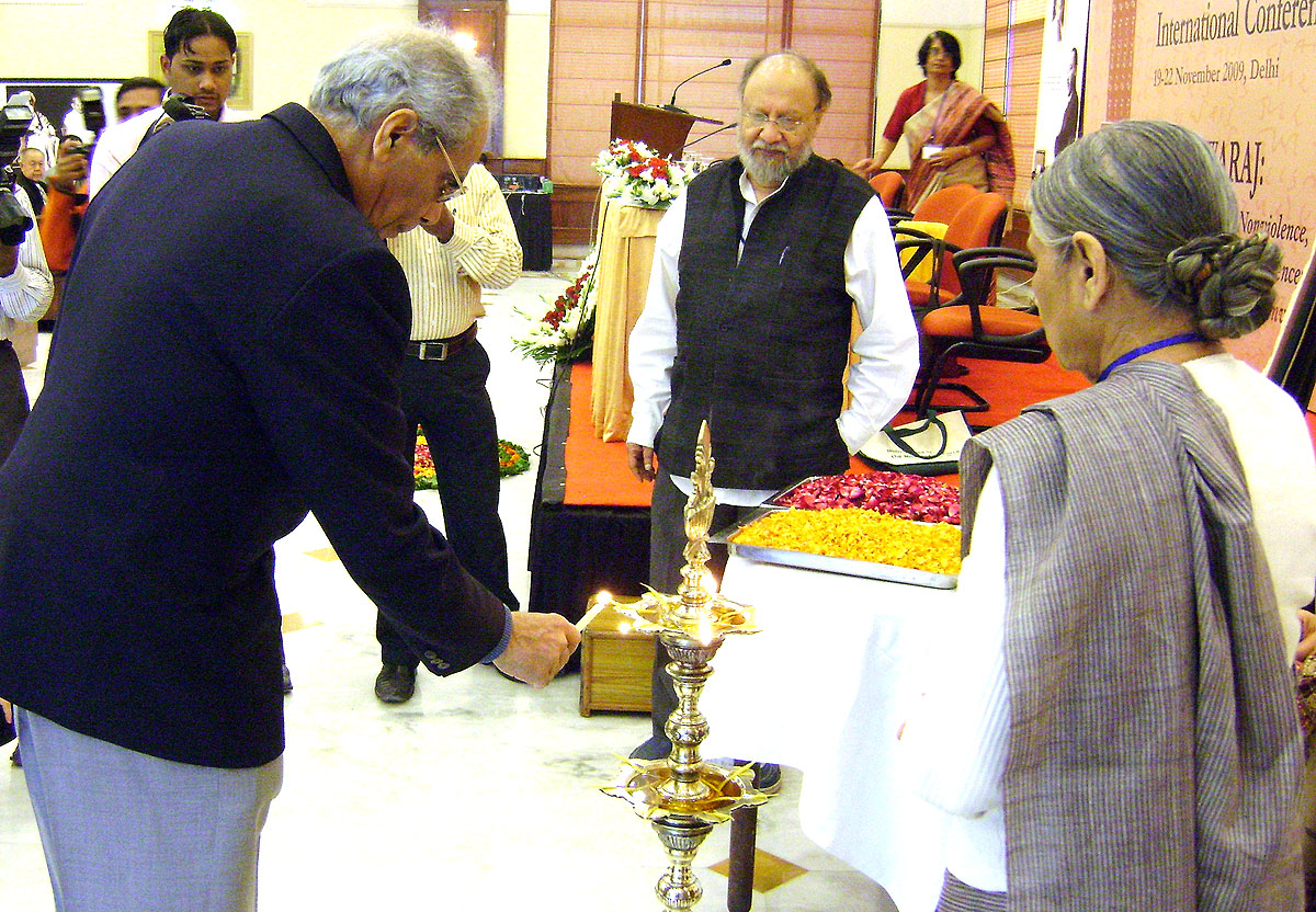 Anthony Parel at the inagural sessions. Also seen in the photo are Prof. Ashish Nandy, Mrs. Ela Bhatt & Dr. Niru Vora. Photo Courtesy: Friends of Tibet